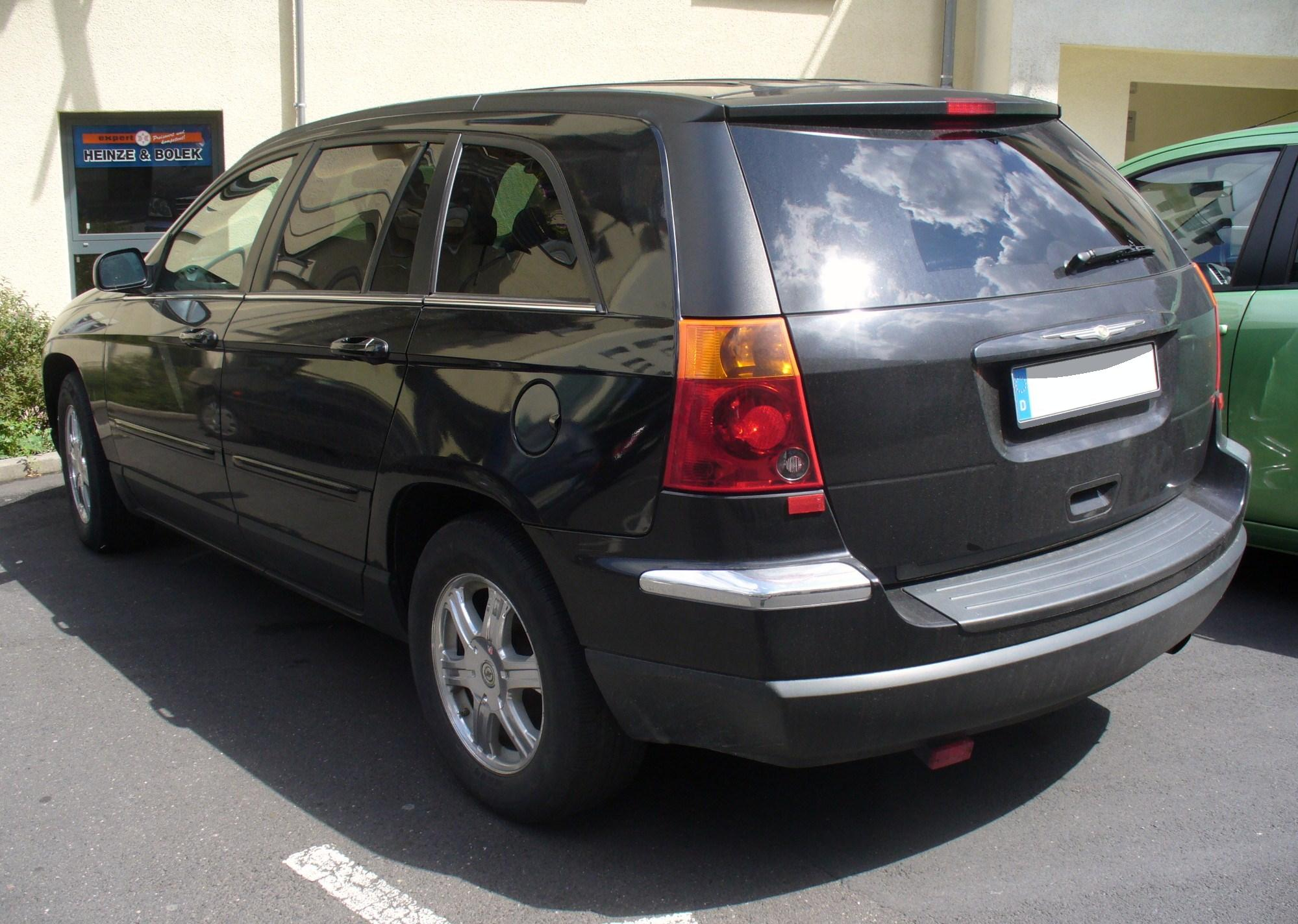 Chrysler Pacifica